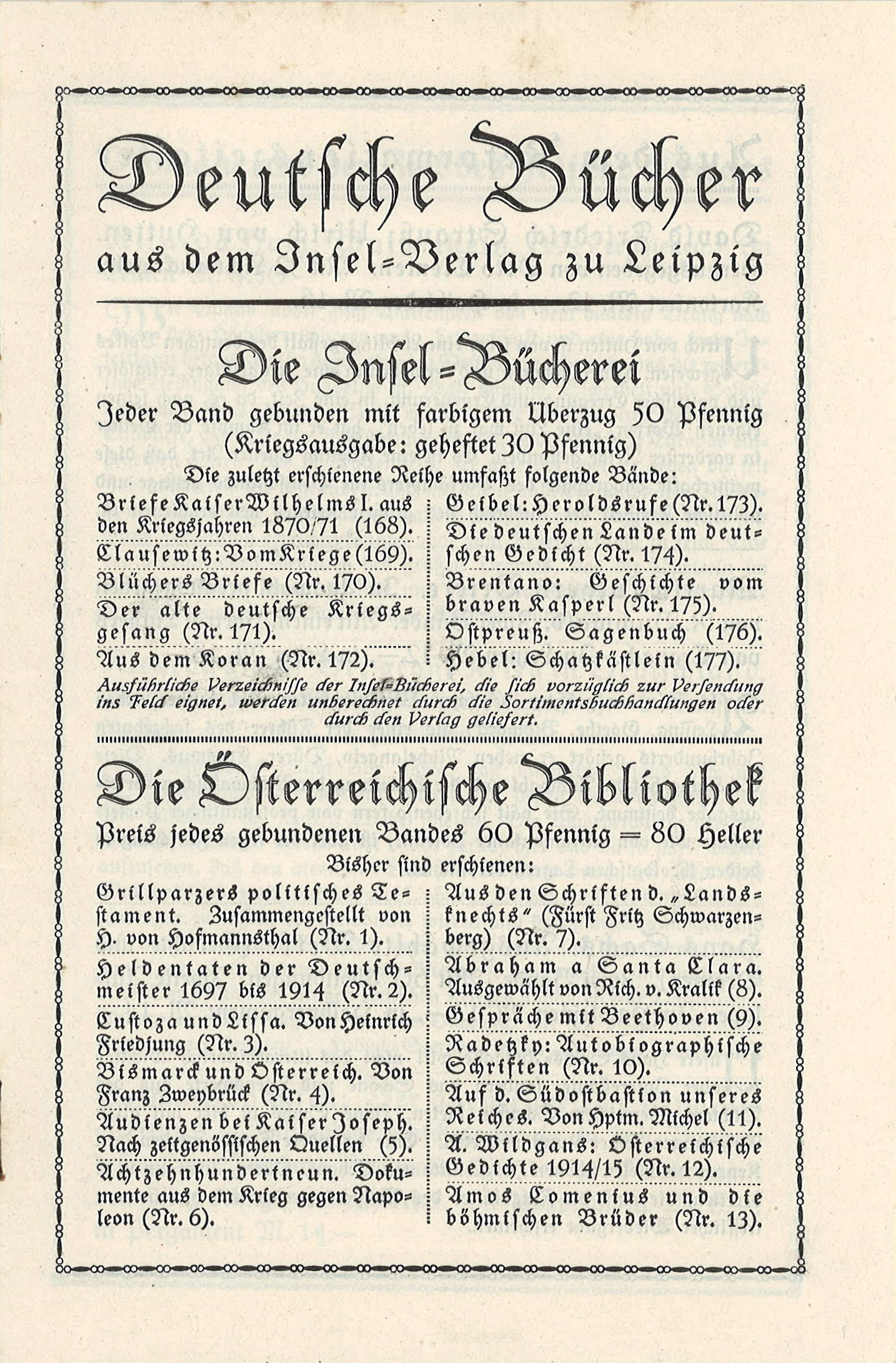 Frontcover of Insel Verlag's catalog "Deutsche Bücher aus dem Insel Verlag zu Leipzig" from 1913 with the announcement of IB's war editions